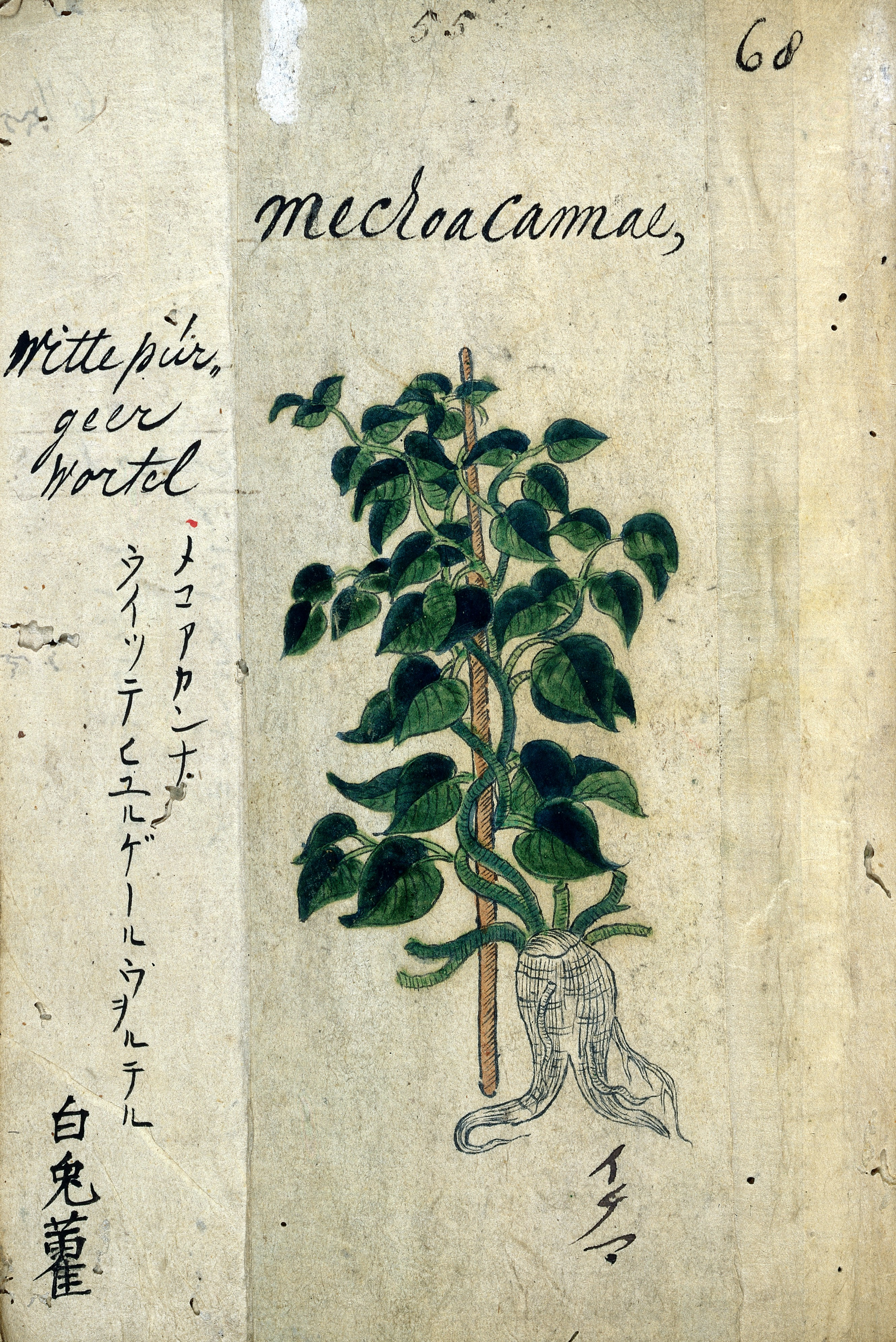 Contains various drawings of European plants with names/text in Old Dutch, Chinese, Japanese & Latin. Illustration 55. Asian Collection